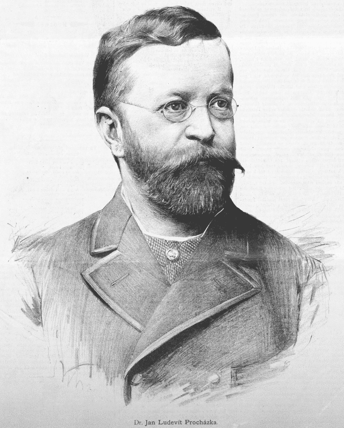 Portrait of Jan Ludevít Procházka, founder of Prague choir "Hlahol".